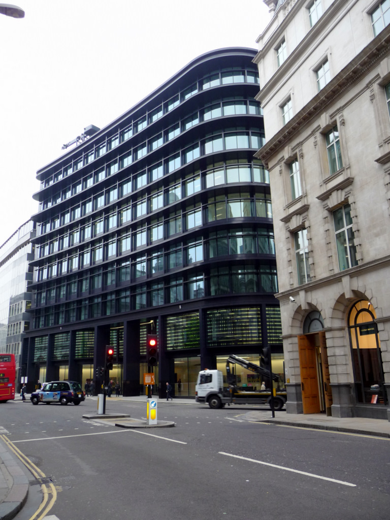 Threadneedle Street, London EC2 Looking down Threadneedle Street towards the junction with Old Broad Street.